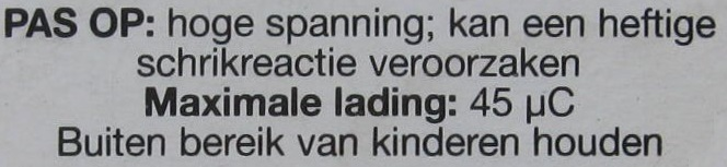 message on bug zapper that charge is limited